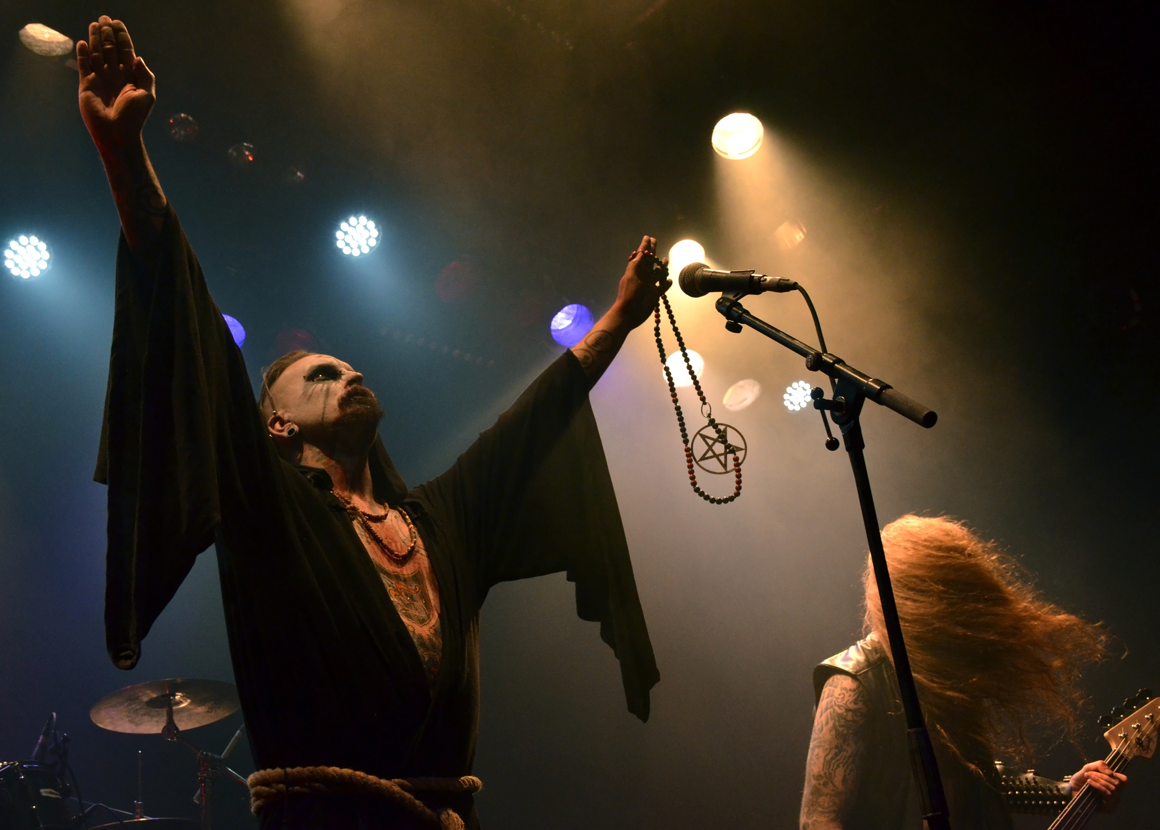 Spellgoth, the vocalist of Horna, performing at the Black Arts Ceremony, at the CCO, in Villeurbanne ( France ), the 4th of October 2014.